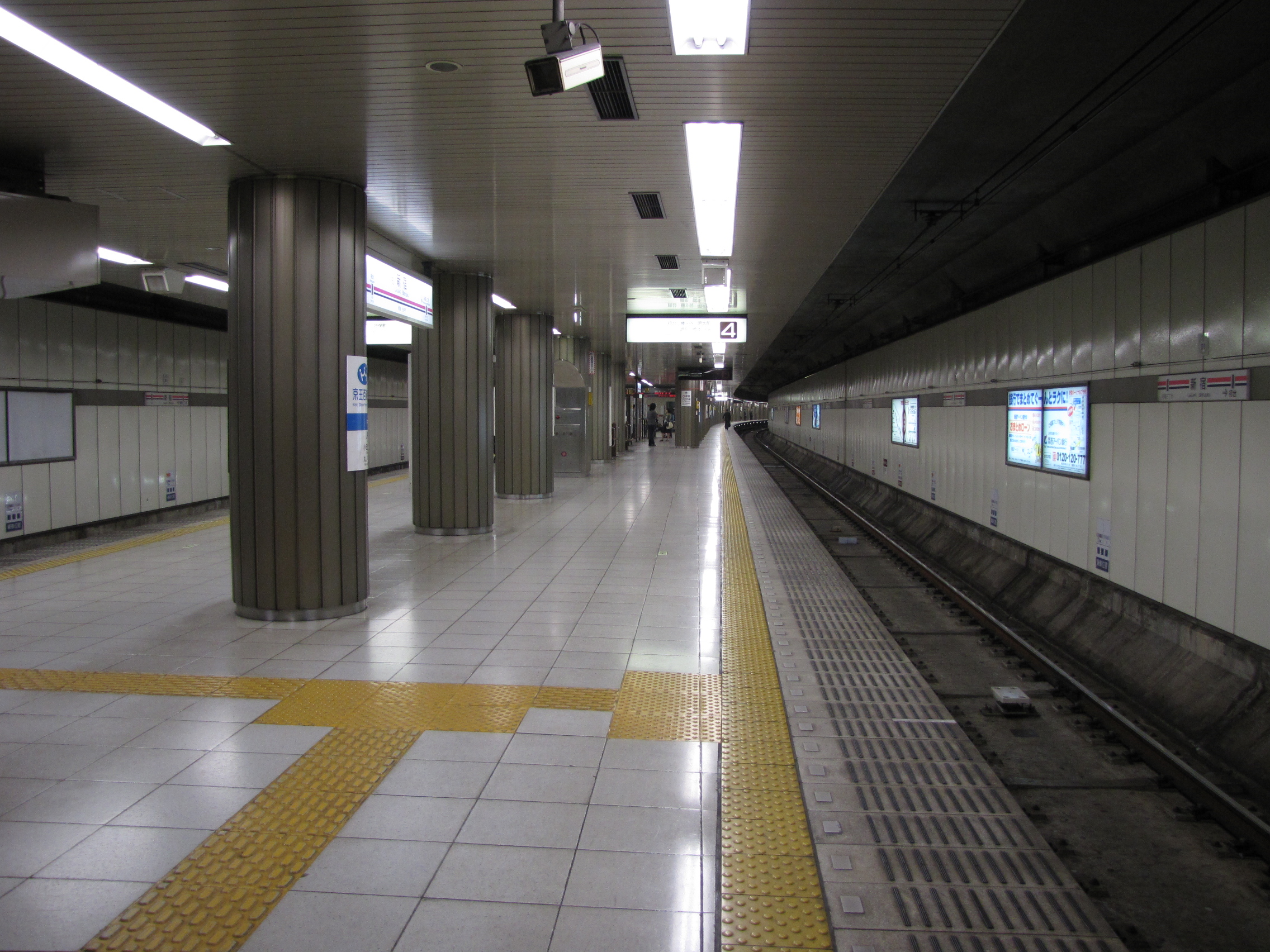 Keio NewLine Shinsen-Shinjuku Sta.(Shinjuku Subway Line Shinjuku Sta.)Platform